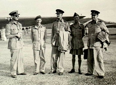 Penang, Malaya. C. 1945-07. Air Chief Marshal Sir Keith Park, Allied Air Commander-in-Chief, South East Asia (centre), with Air Marshal Sir Hugh Saunders, Air Marshal Commanding RAF Burma (right), and Air Vice Marshal A. T. Cole, RAAF Observer Officer (extreme left), on Georgetown airfield, near Penang.